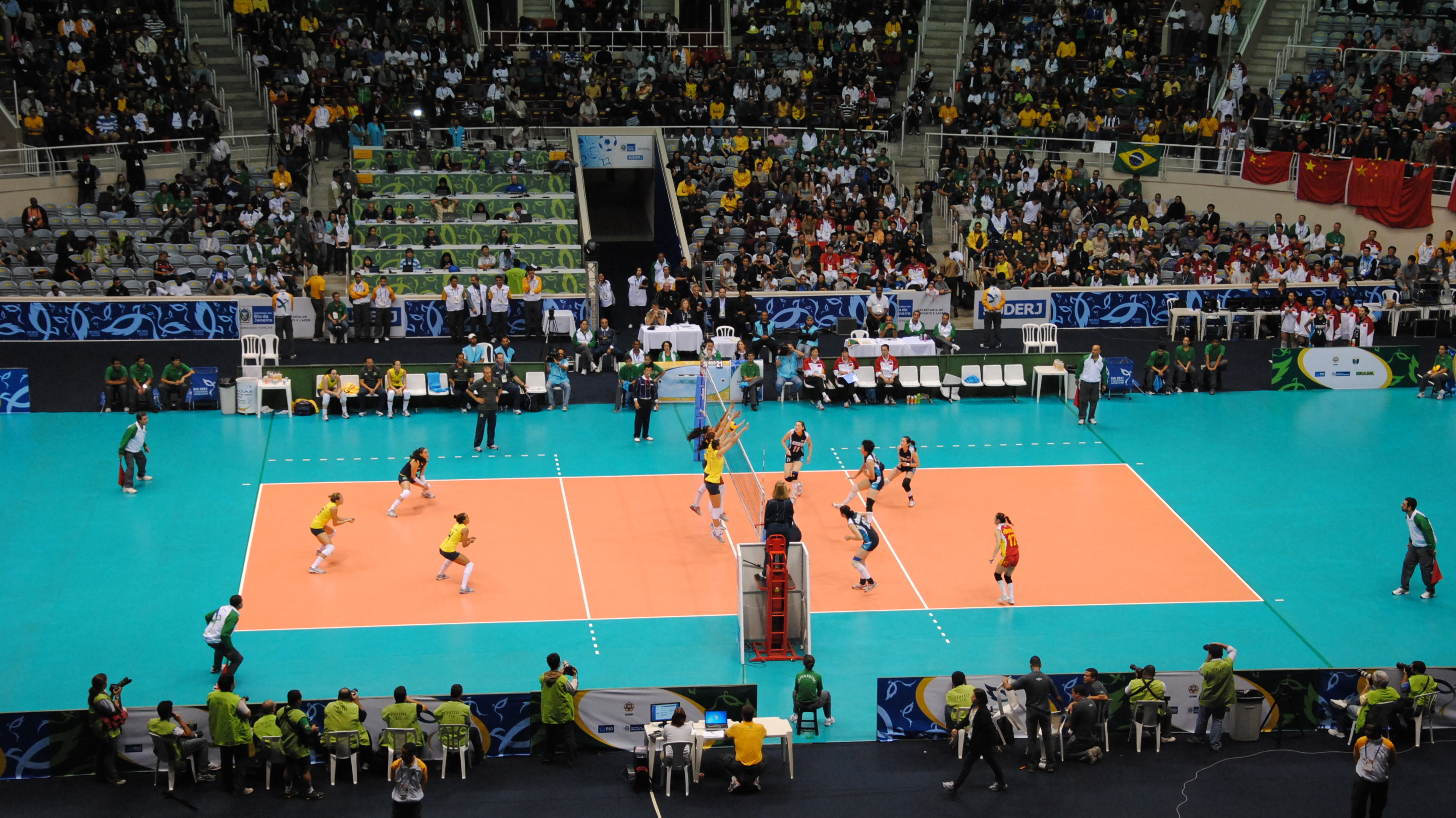 Women's gold medal match. 2011 Military World Games, Rio de Janeiro.